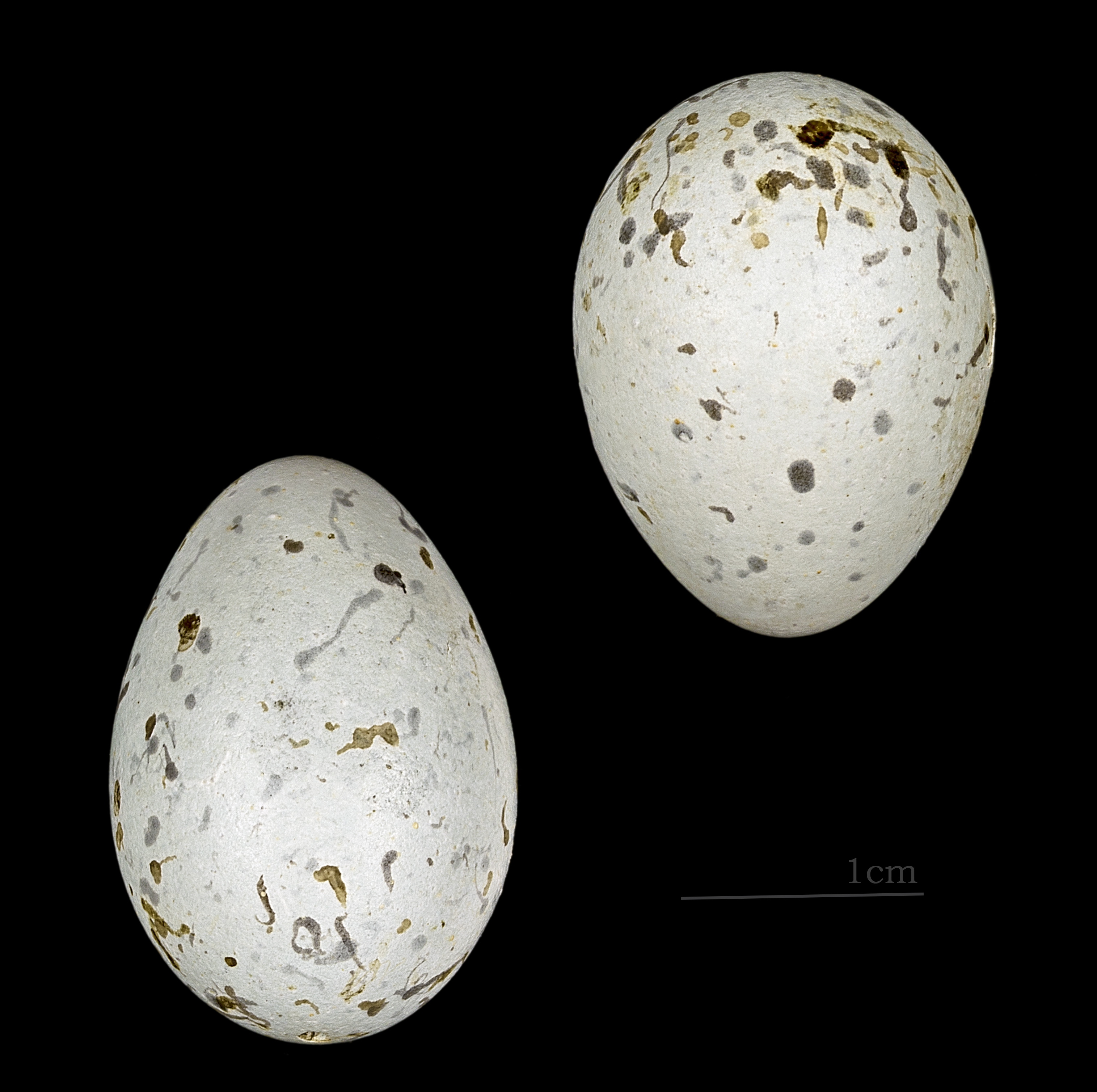 Egg of Japanese Grosbeak. Collection of Henri Heim de Balsac /Jacques Perrin de Brichambaut.